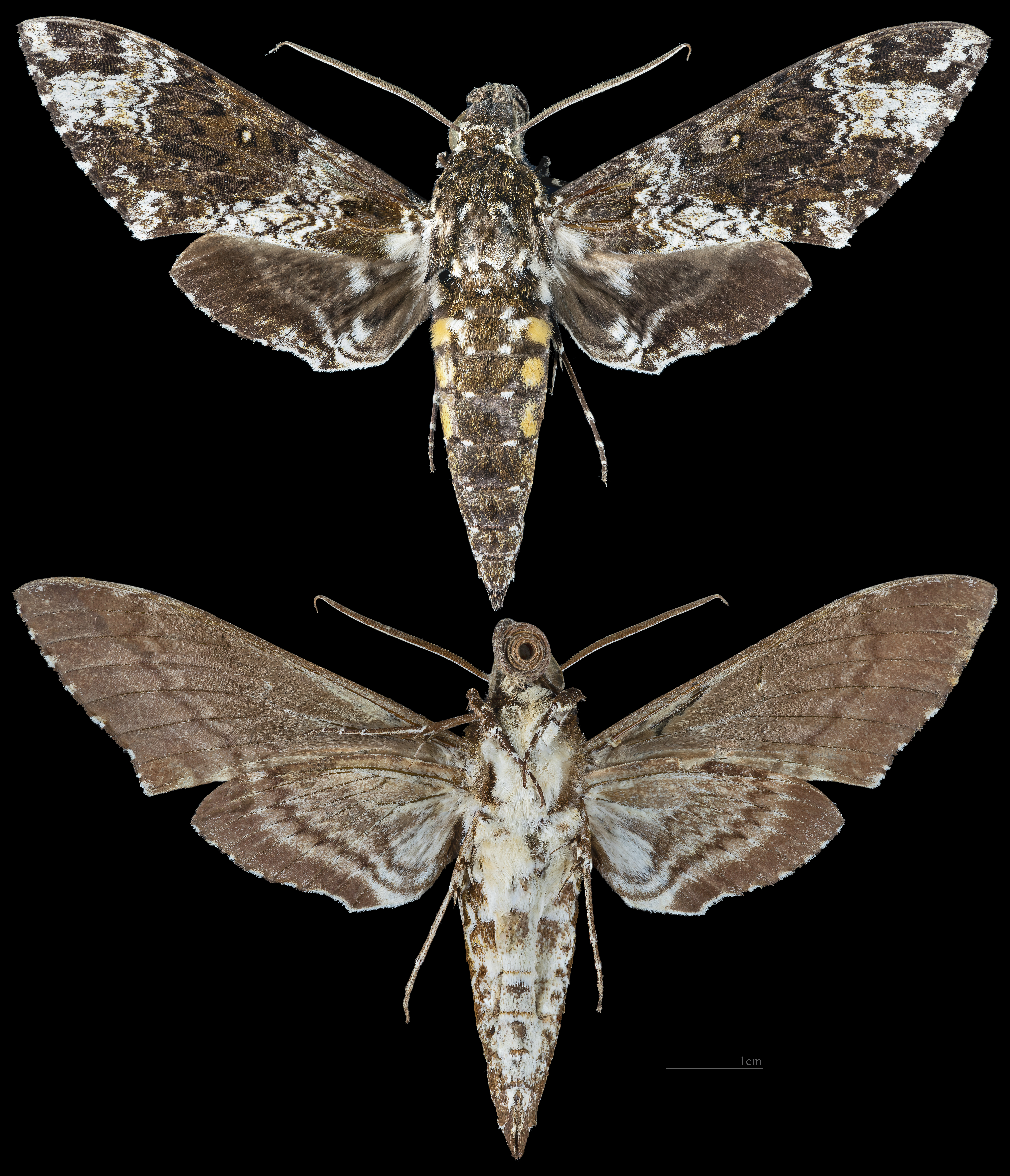 Manduca rustica - Two views of same specimen Collection of the Mathematician Laurent Schwartz